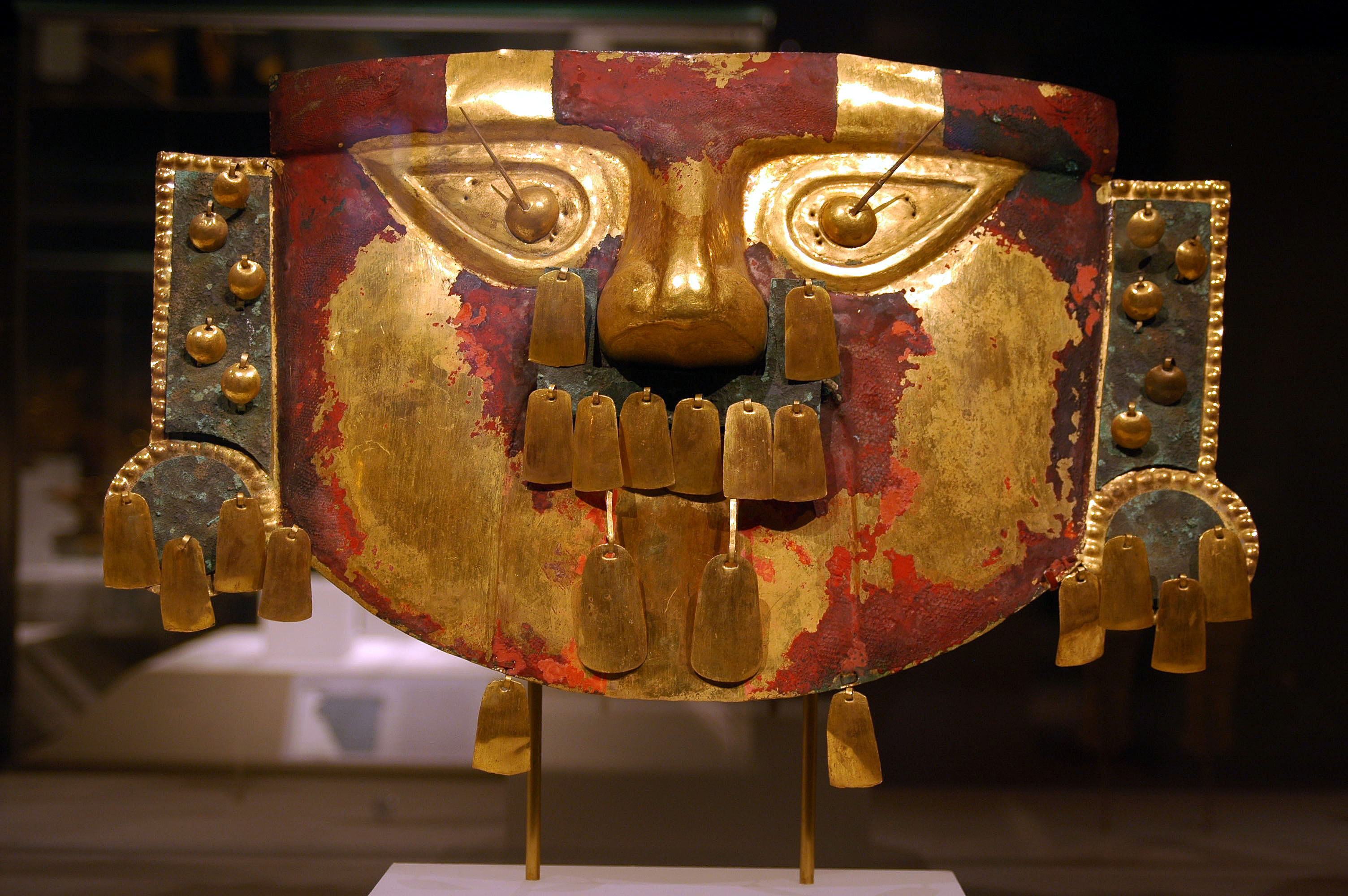 Funerary Mask, 10th–11th century Peru; Sicán (Lambayeque) Gold, copper overlays, cinnabar; H x W: 11 1/2 x 19 1/2in. (29.2 x 49.5cm) The Metropolitan Museum of Art, New York, Gift and Bequest of Alice K. Bache, 1974, 1977 (1974.271.35) View at the Metropolitan Museum of Art website Wikipedia Loves Art at the Metropolitan Museum of Art This photo of item # 1974.271.35 at the Metropolitan Museum of Art was contributed under the team name "futons_of_rock" as part of the Wikipedia Loves Art project in February 2009. Metropolitan Museum of Art The original photograph on Flickr was taken by AlkaliSoaps—please add a comment to the original Flickr page whenever a use has been made on Wikipedia or another project. Project galleries on Flickr: this institution, this team